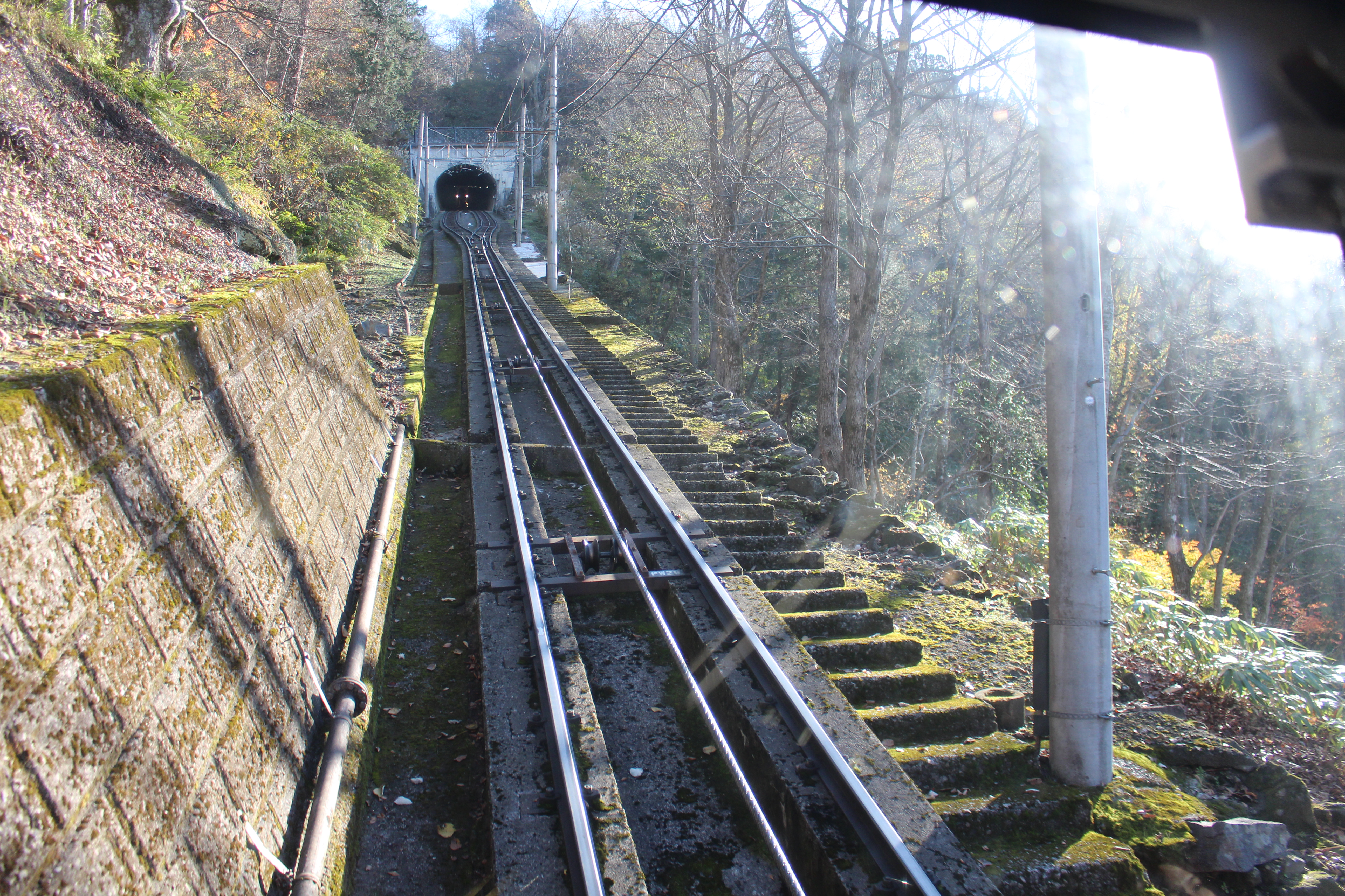 Tateyama Cable Car (Tateyama Kurobe Alpine Route) in Tateyama, Nakaniikawa District, Toyama Prefecture, Japan.